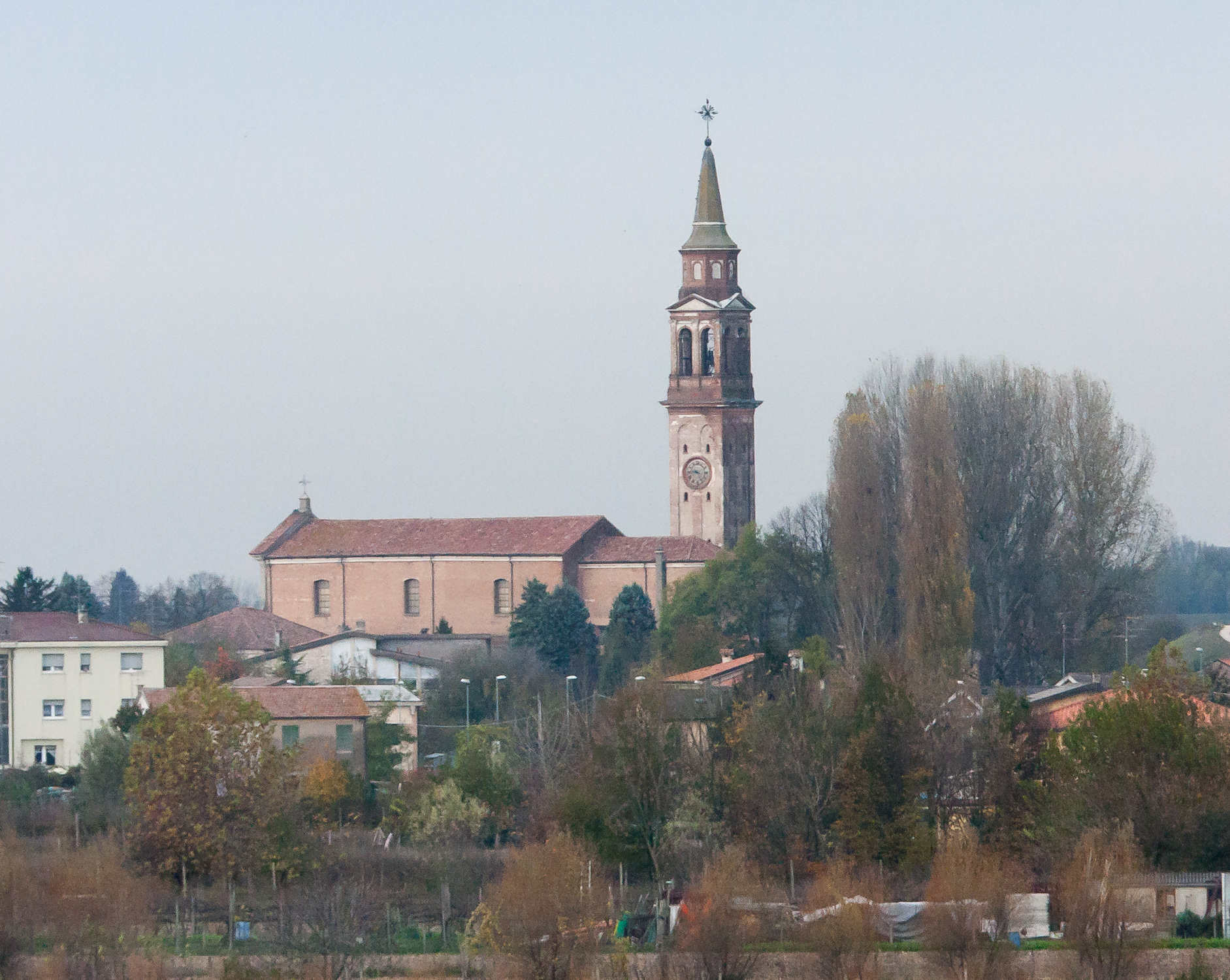 Church of Beata Vergine Maria / Concadirame, Italy